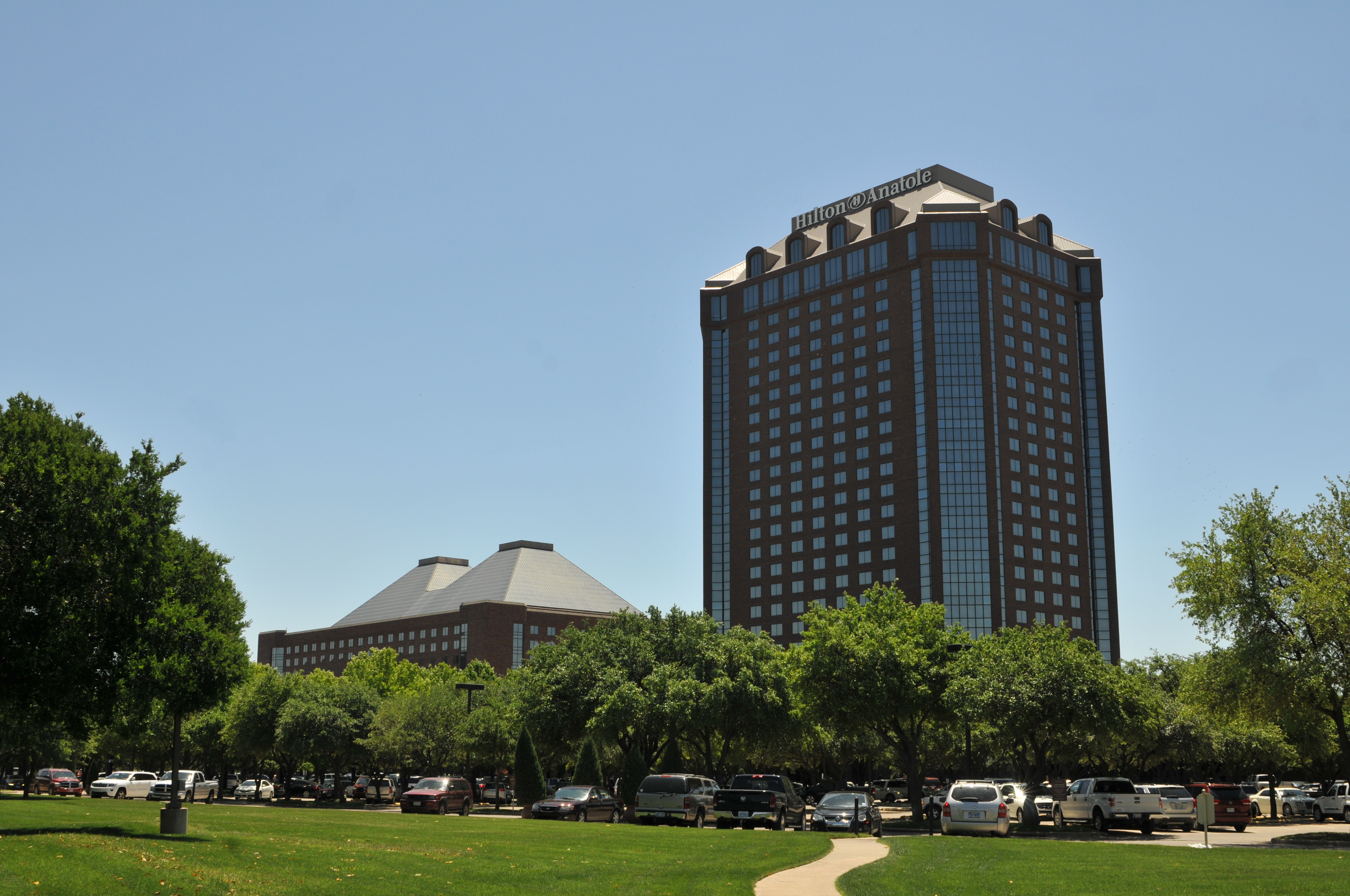 Hilton Anatole